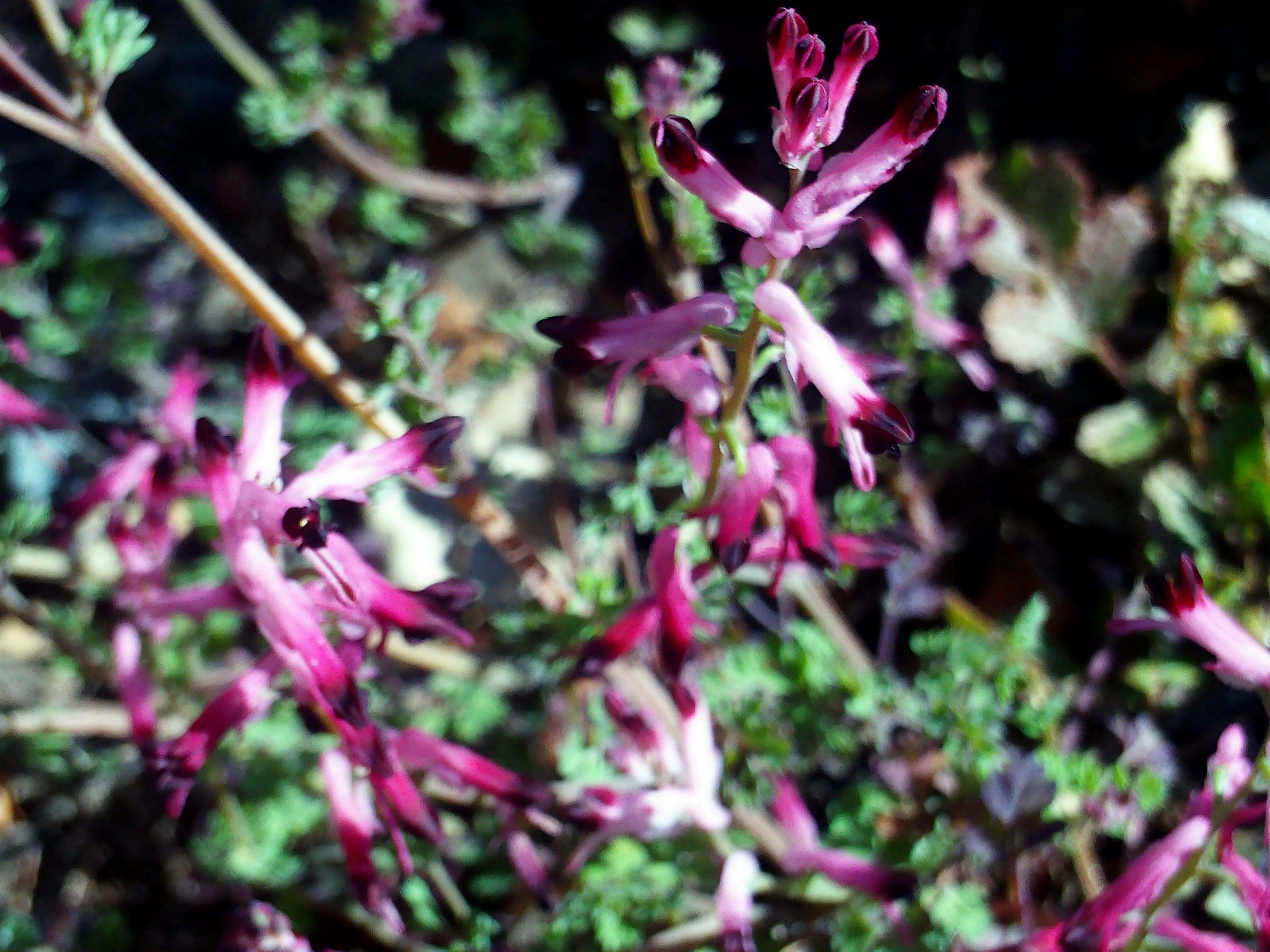 Fumaria reuteri Flowers close up, in Sierra Madrona, Spain